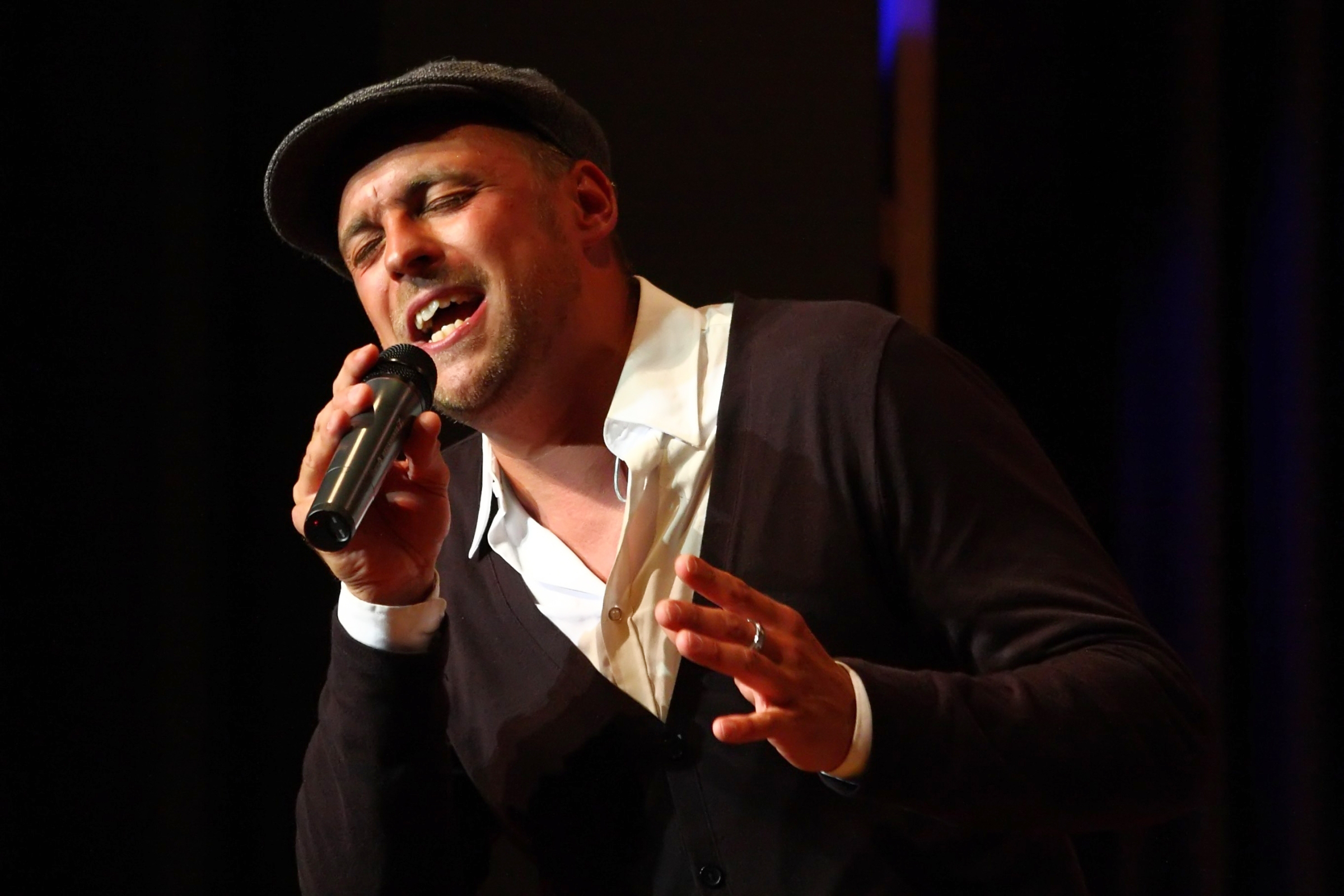 Max Mutzke live